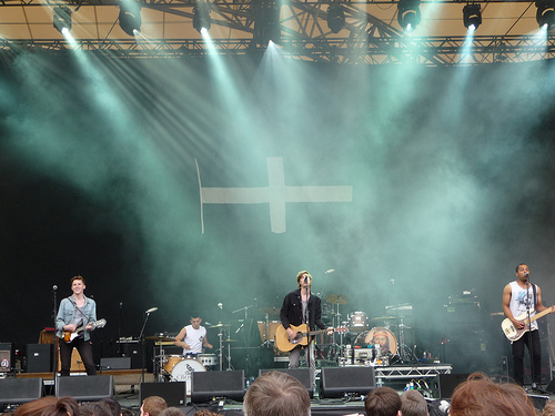 Crowns at the Eden Sessions, 2011